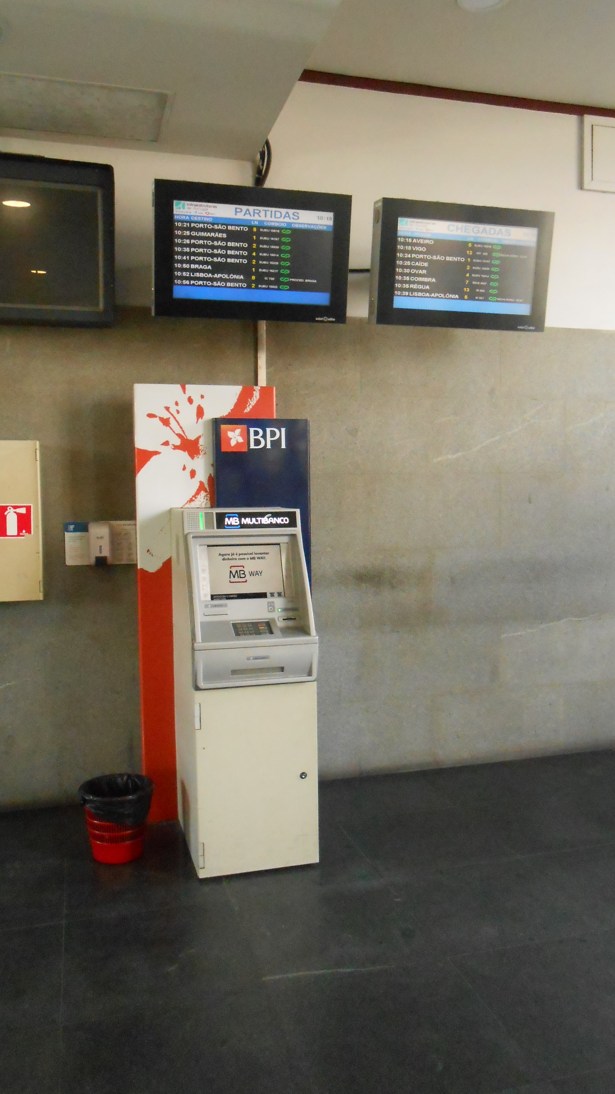 A Multibanco ATM of the portuguese BPI bank in the waiting area of Porto Campanhã train station.